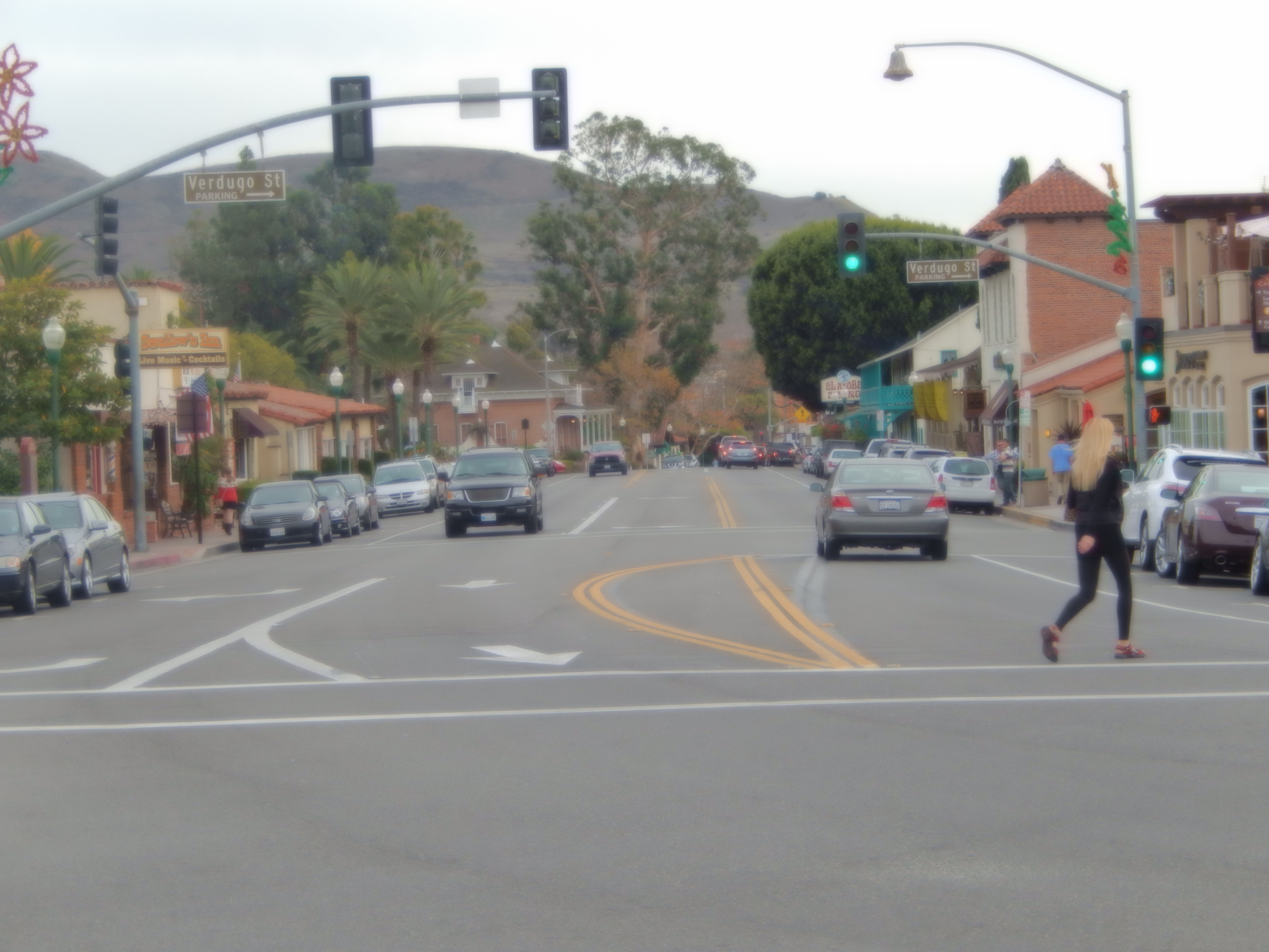 I took photo of downtown San Juan Capistrano, with Nikon camera.